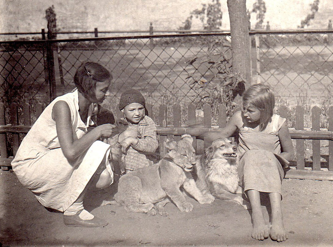 Soviet children's literature writer, naturalist Vera Chaplina (1908 – 1994) with lion cub Kinuli and collie Peri. Moscow, summer 1935.